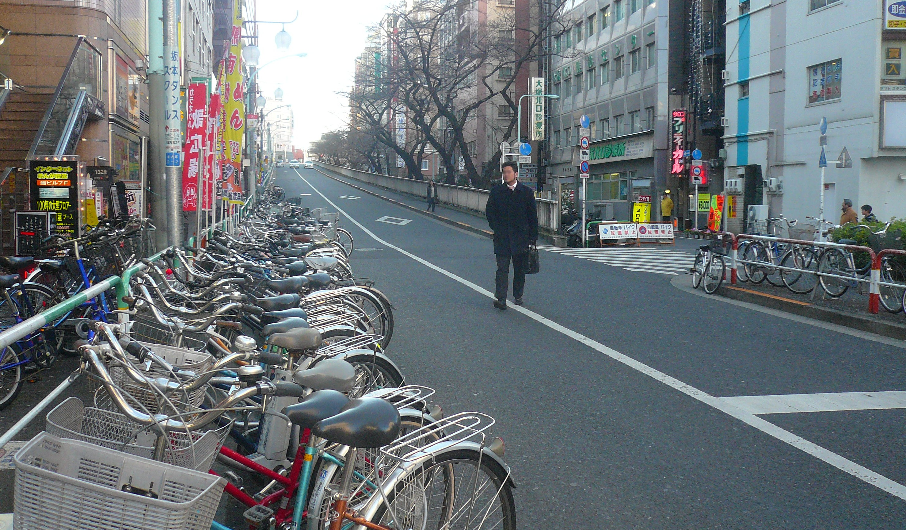 Near Otsuka Station in Tokyo. Less than 5 minutes from the north exit. (大塚駅)